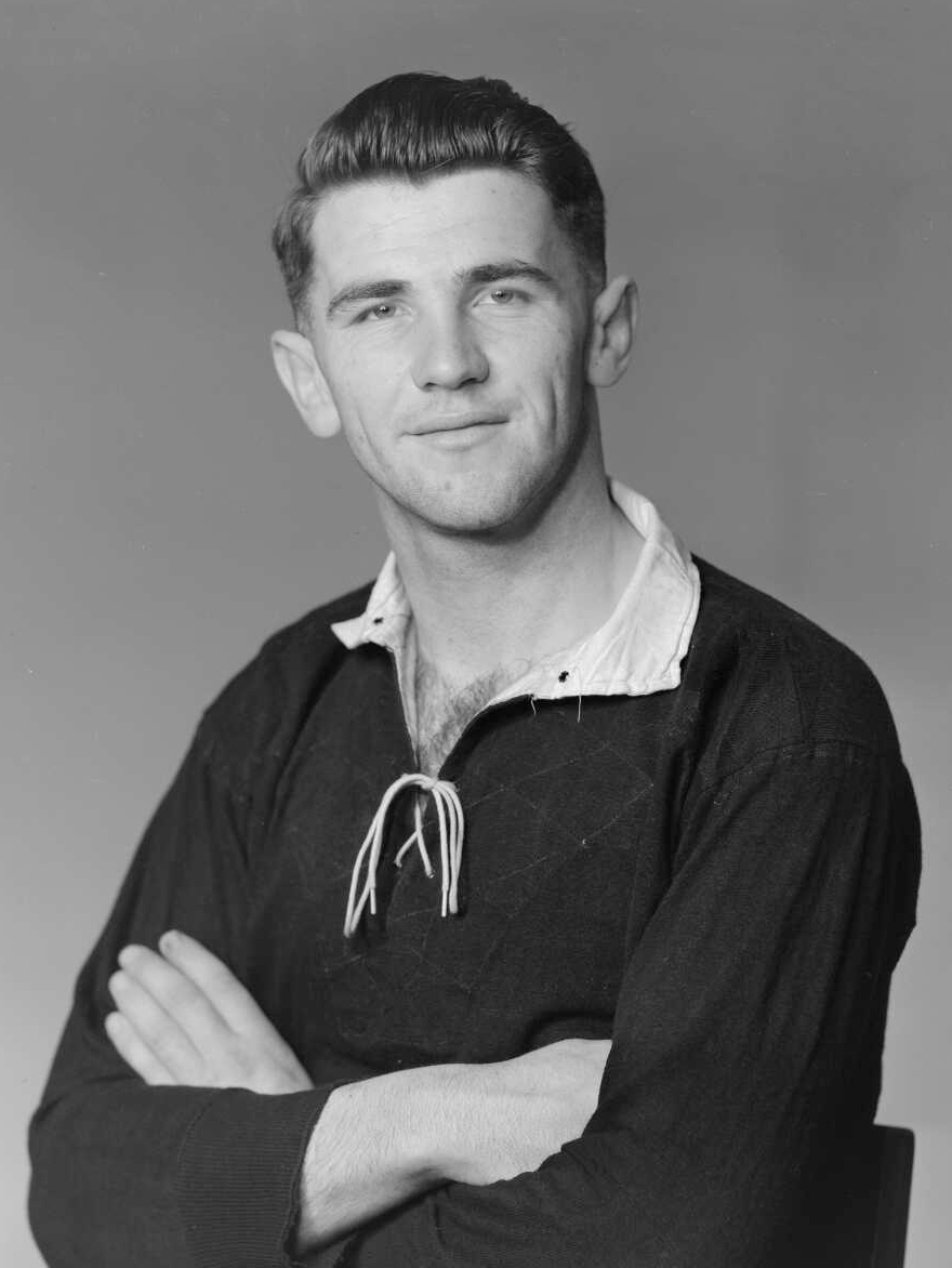 Photograph of rugby player Bill McCaw, taken by Crown Studio Ltd of Wellington.